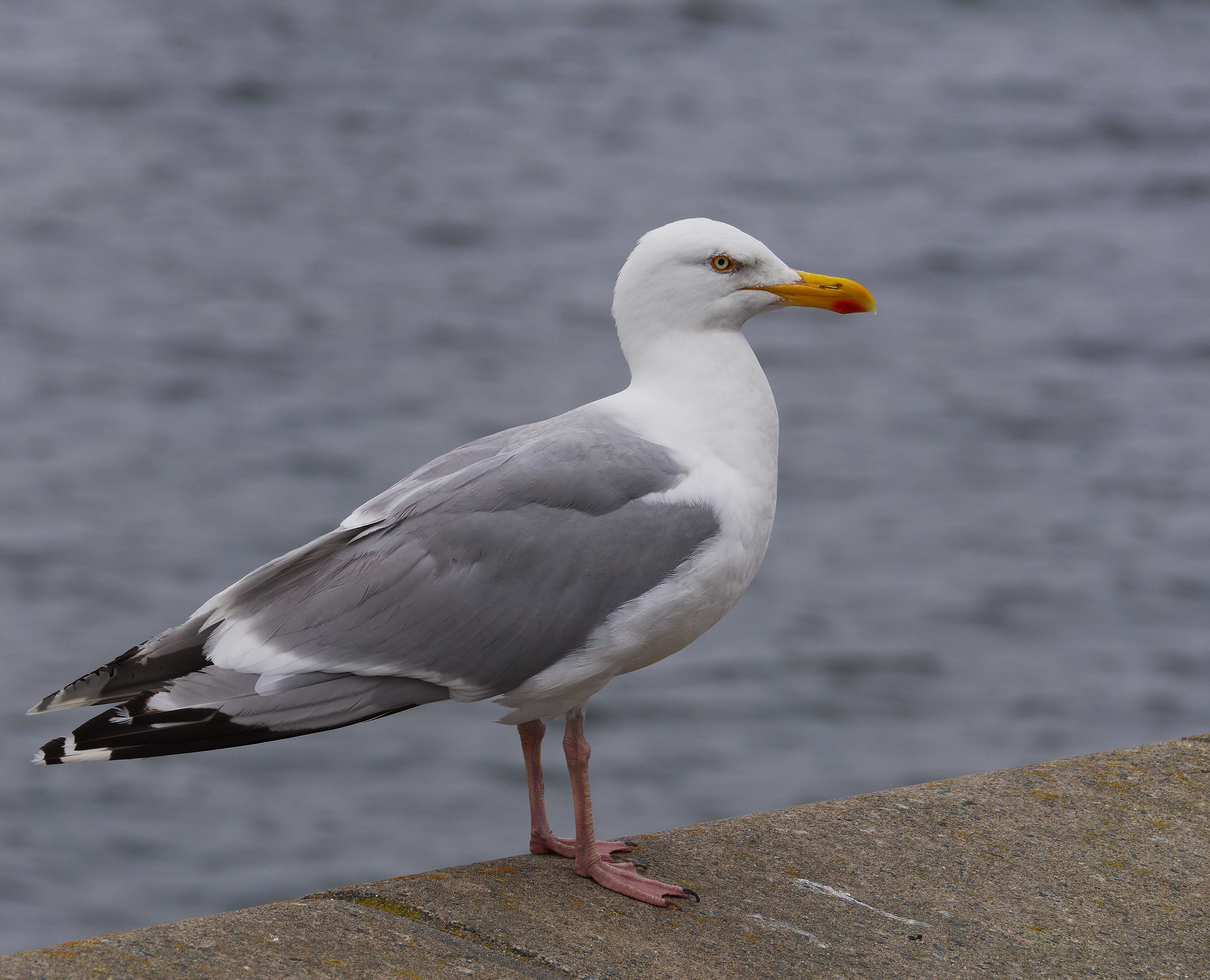 European herring gull - Larus argentatus. Taken at the Kiellinie in Kiel, Schleswig-Holstein, Germany.